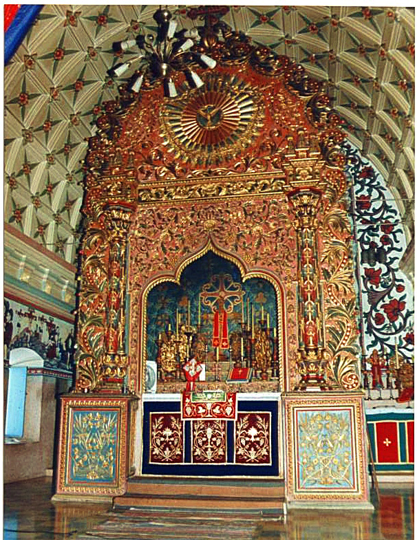 Main Altar in St. Thomas syrian-orthodox Church North Paravur, Kerala, India (Aufnahme 1992)